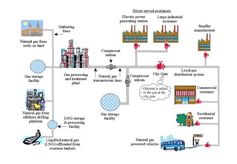 Extracted from the PDF shown. Caption: Figure 2 Natural Gas Pipeline Systems: From the Wellhead to the Consumer